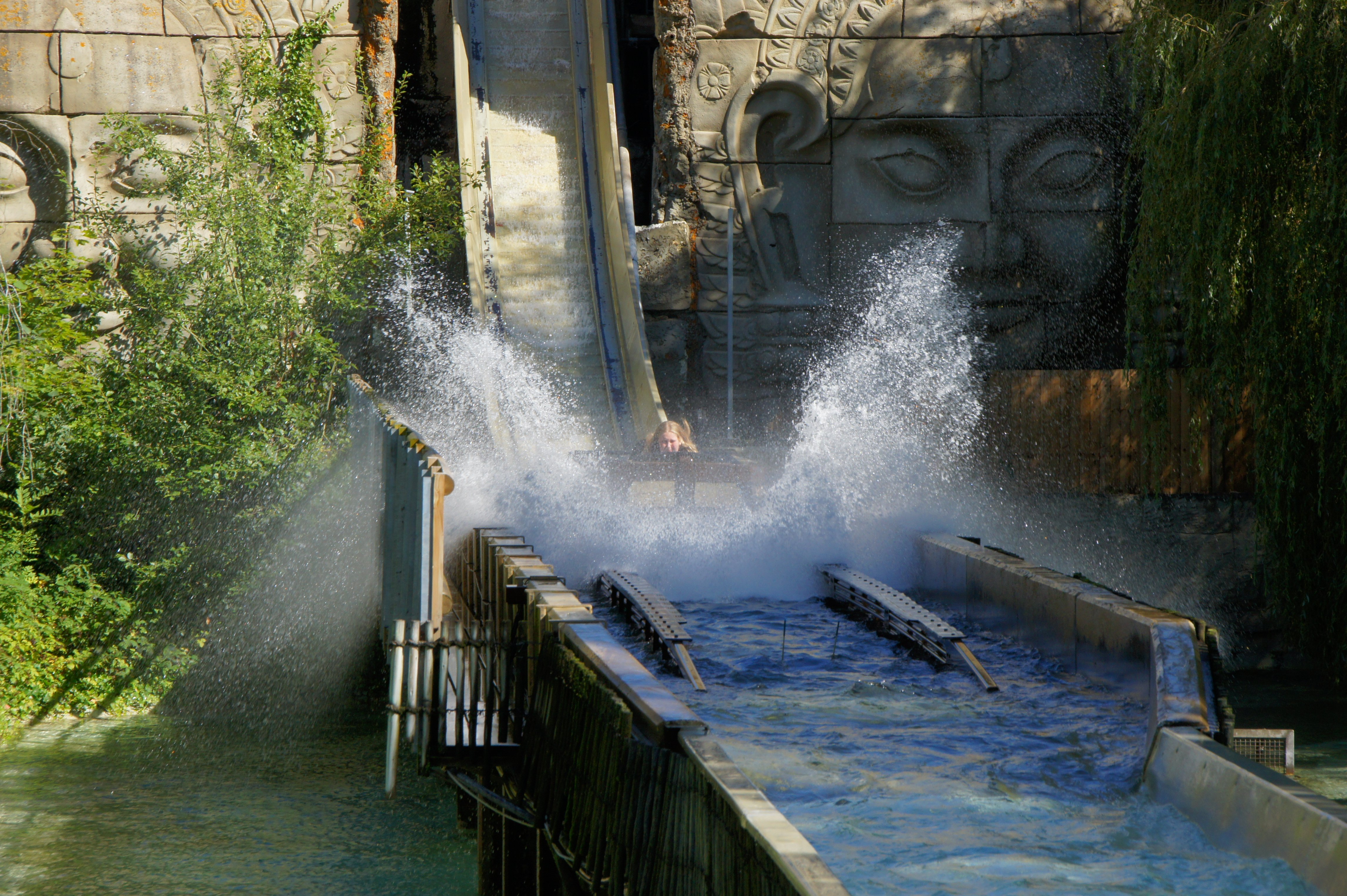 Chessington World of Adventure and Zoo.